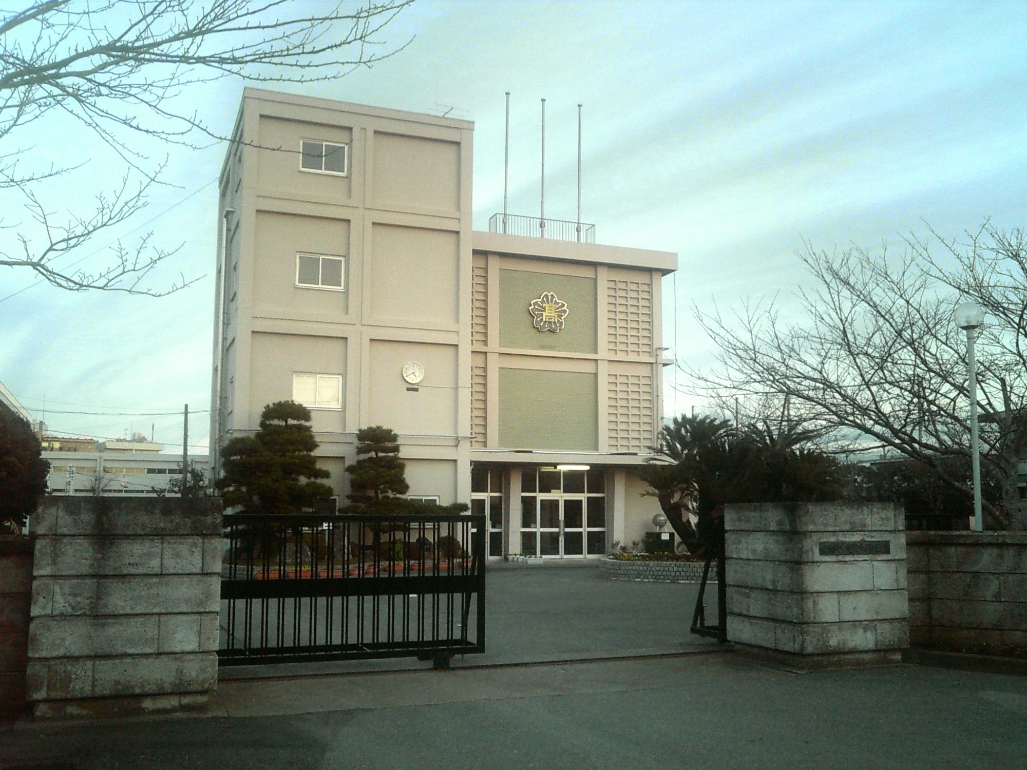 Chiba prefectural Asahi agricultural high school. 千葉県立旭農業高等学校